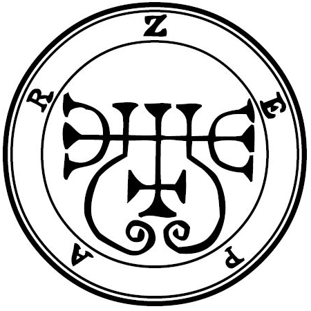 Zepar seal, THE BOOK OF THE GOETIA OF SOLOMON THE KING (1904)